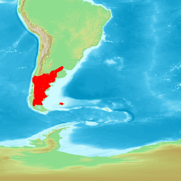 Coscoroba swan areal in South America, and Falklands. Drawn on free Demis maps; File:WorldMap -90,-90,-0,0.png